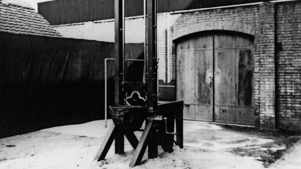 The Lucerne Guillotine prepared for the execution of Paul Irniger in Zug, Switzerland.